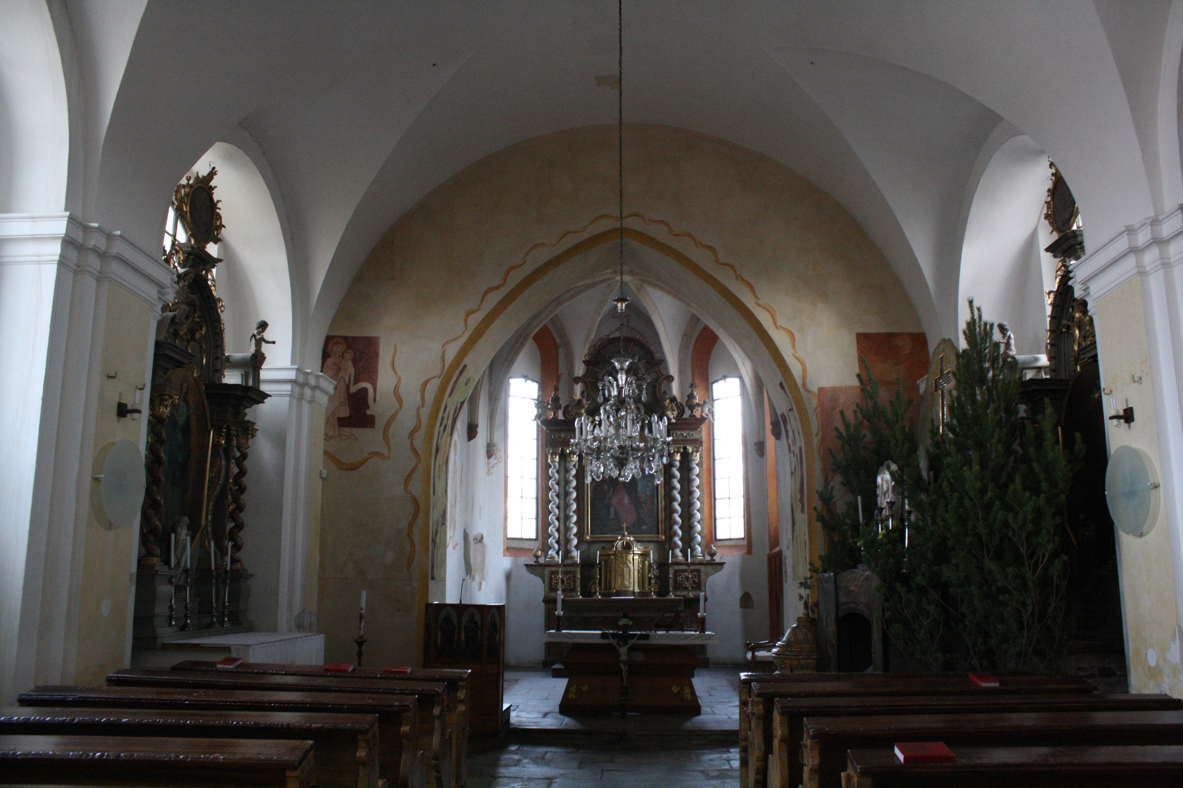 Mladošovice, Church of of Saint Bartholomew (interior)